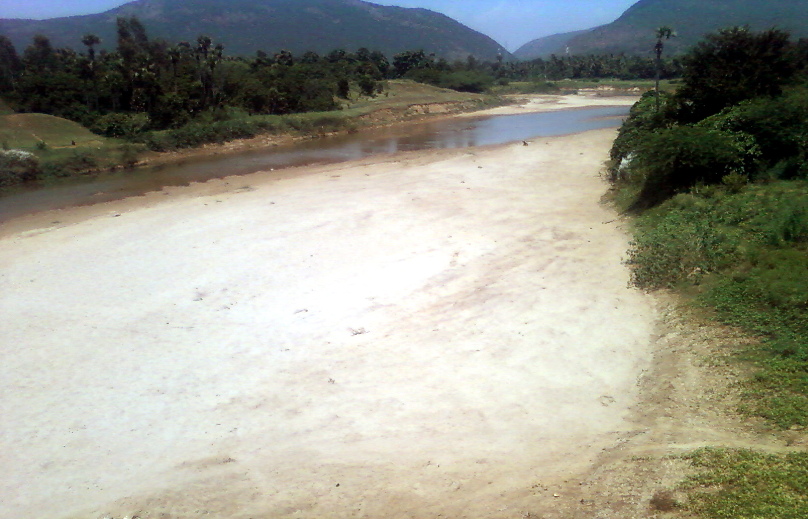 Varaha river near Etikoppaka in Visakhapatnam district